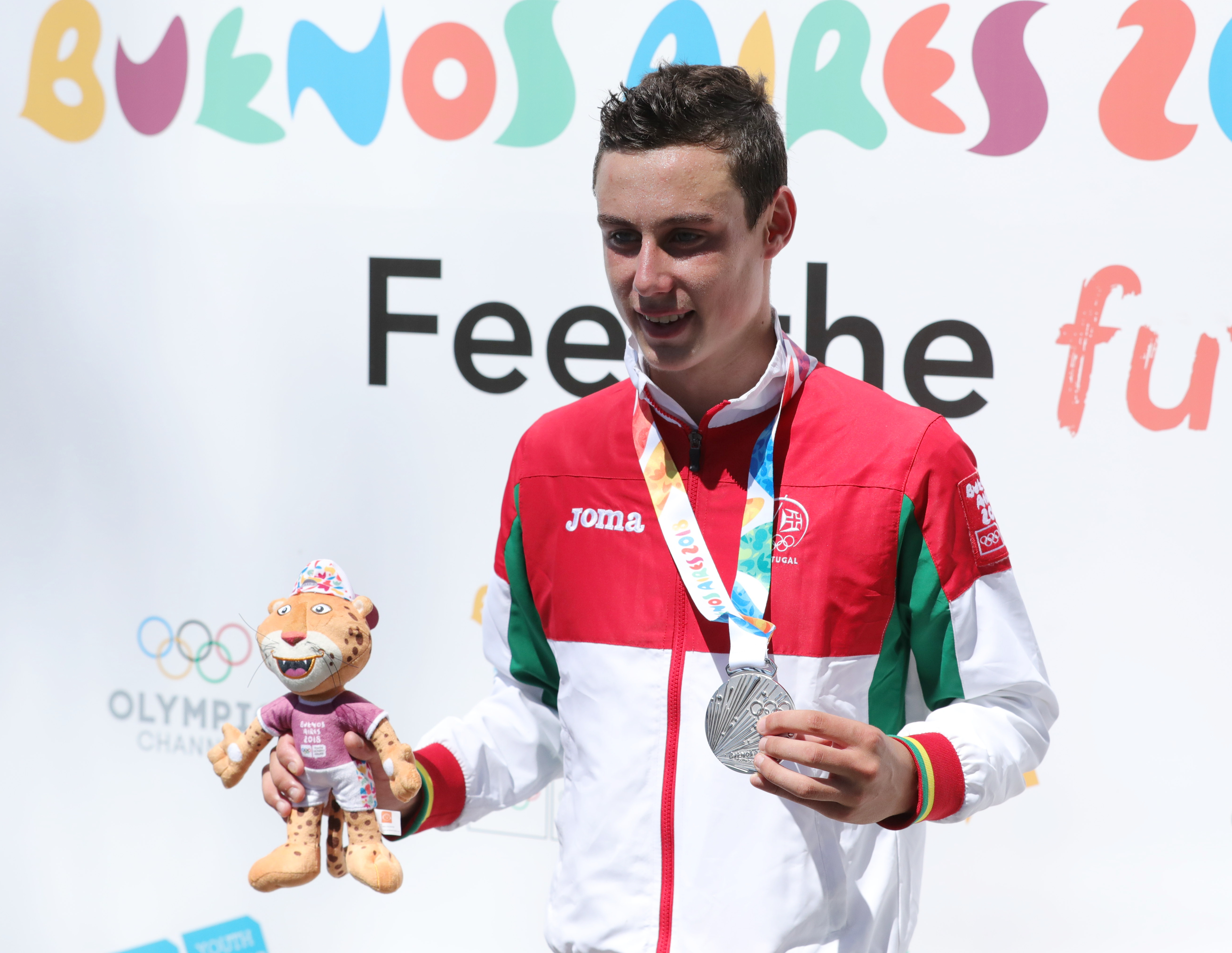 Boys Triathlon at the 2018 Summer Youth Olympic Games